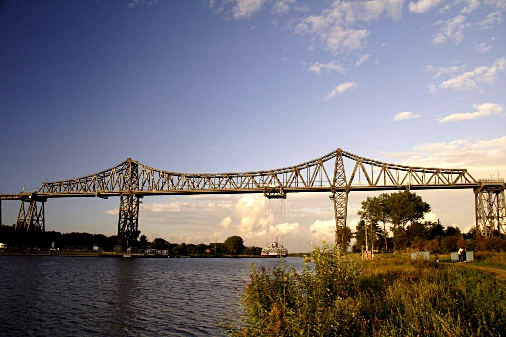 Railway bridge with transporter bridge